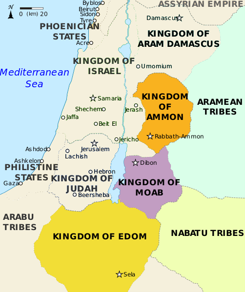 Derived from Kingdoms around Israel 830 map.svg to highlight the Kingdoms of Edom and Moab and their surrounding countries